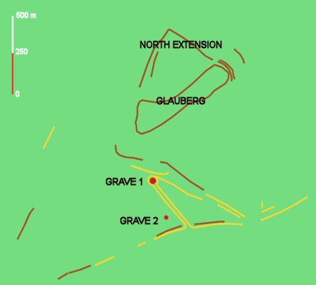 Image created by user athinaios.